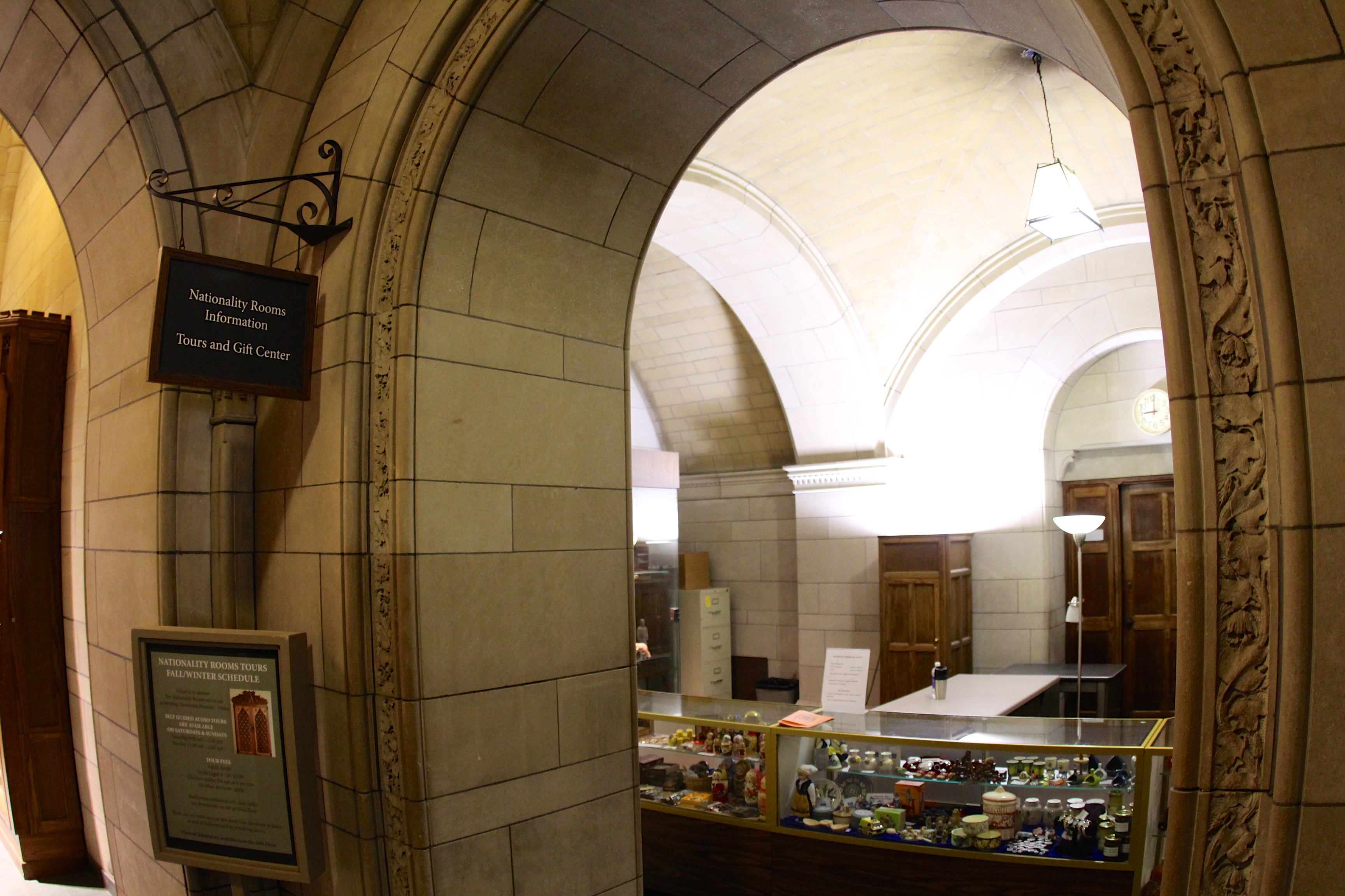 Nationality Room Information, Tours, and Gift Shop center just off the Commons Room in the Cathedral of Learning at the University of Pittsburgh